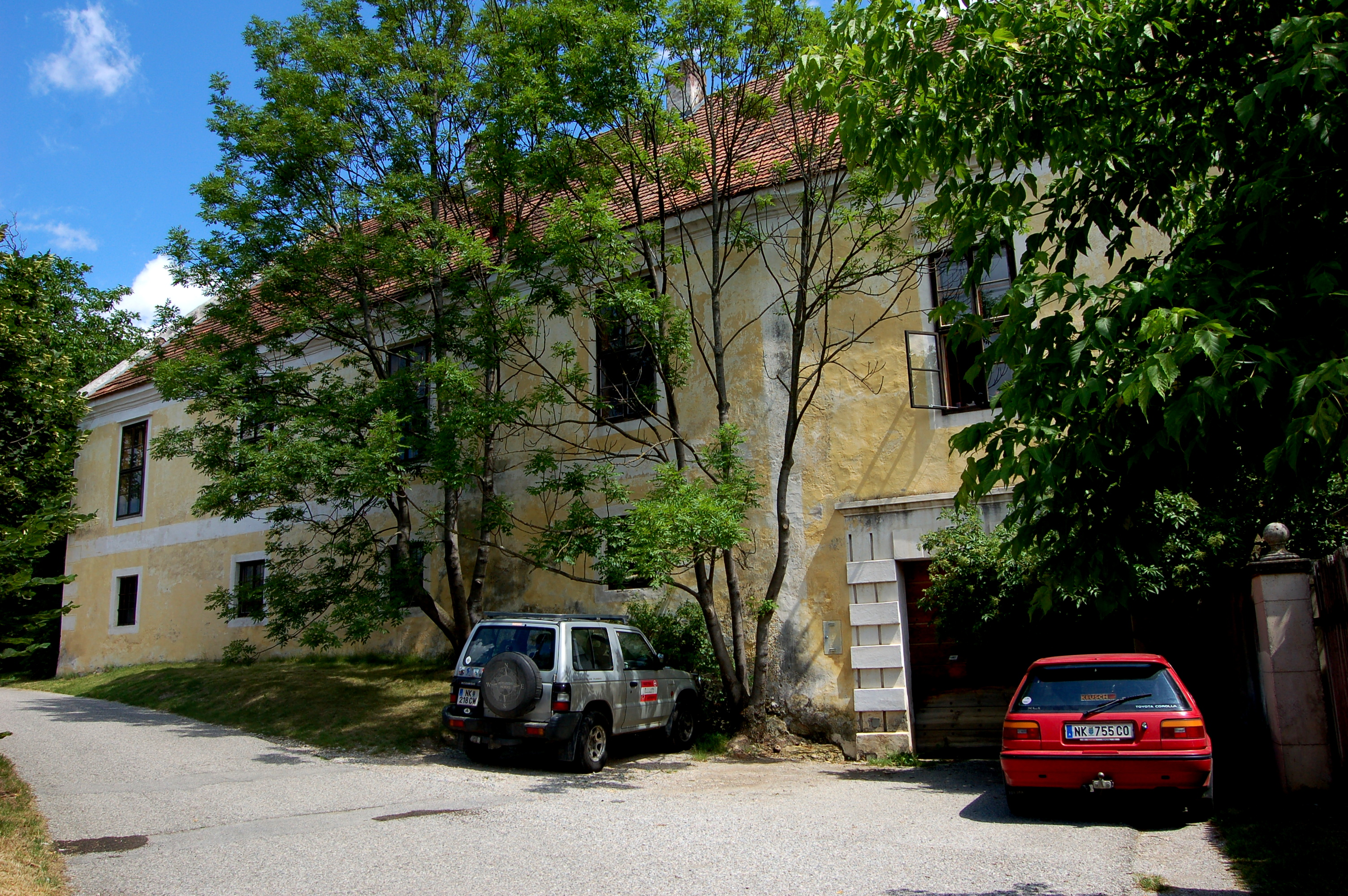 Saubersdorf palace, municipality St. Egyden am Steinfeld, Lower Austria